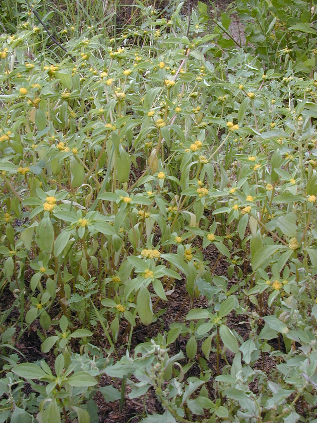 Flaveria trinervia (habit). Location: Maui, Kanaha Beach